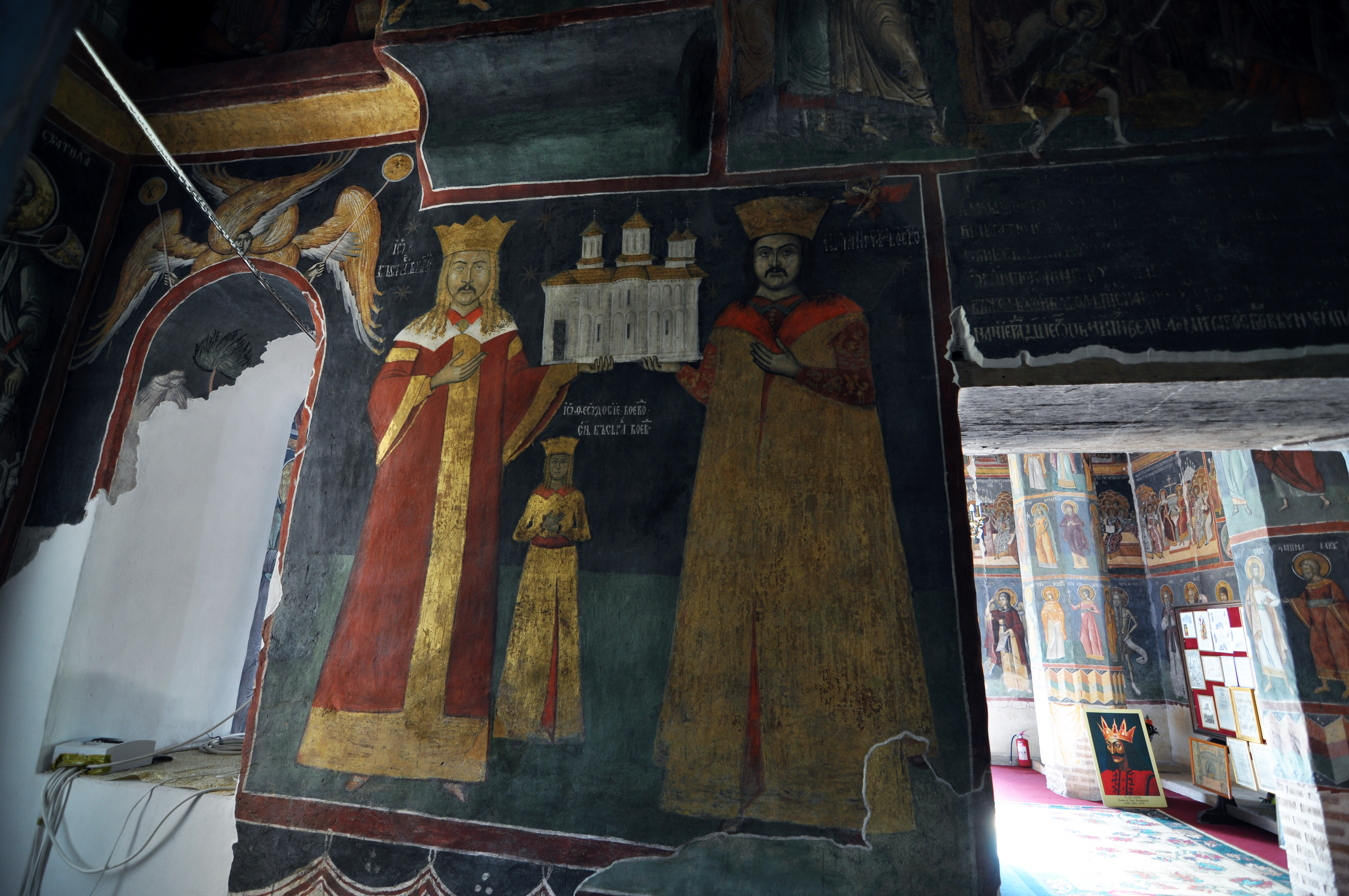 Snagov Monastery Biserica "Intrarea Maicii Domnului în Biserică" "The Presentation" Church [Entrance of the Theotokos into the Temple] construction from 1517, iconography from1563, other interventions 1815, 1904, 1941, 1953, 1966... on the left: Neagoe Basarab with his son Teodosie [the main donor for the construction of the church now standing] on the right: Mircea I of Wallachia or Mircea the Elder [main donor of the previous church on the same spot]